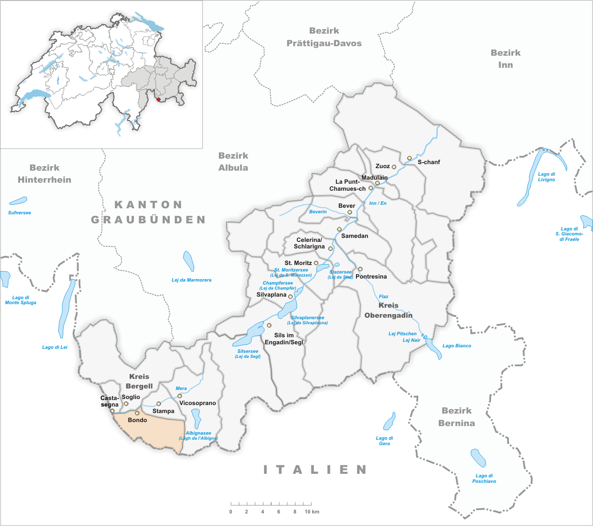 Municipality Bondo